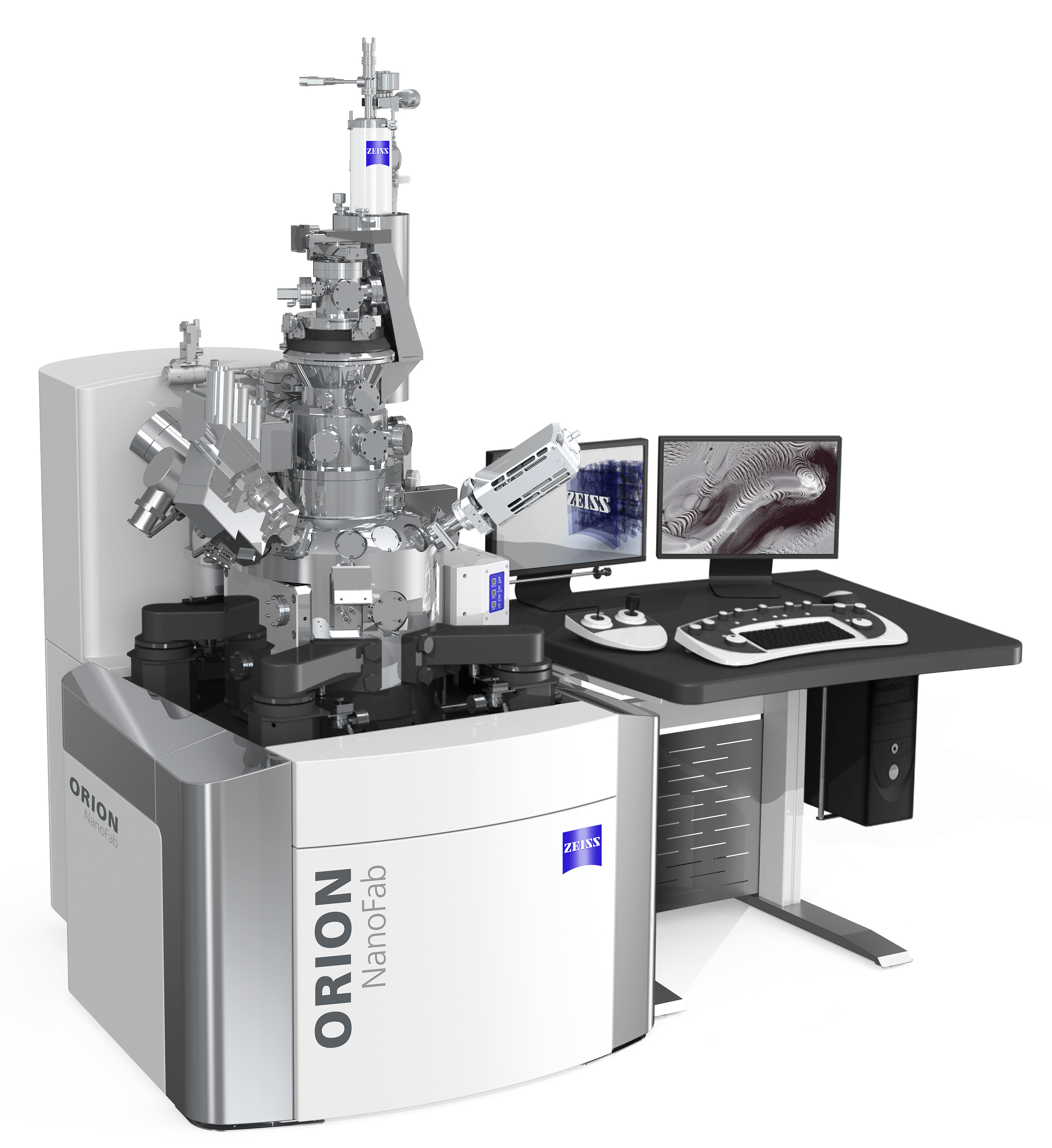 With ORION NanoFab you profit from the only system in the world that covers the complete range of micromachining to nanomachining applications using gallium, neon and helium ion beams integrated in a single instrument. Images donated as part of a GLAM collaboration with Carl Zeiss Microscopy - please contact Andy Mabbett for details.